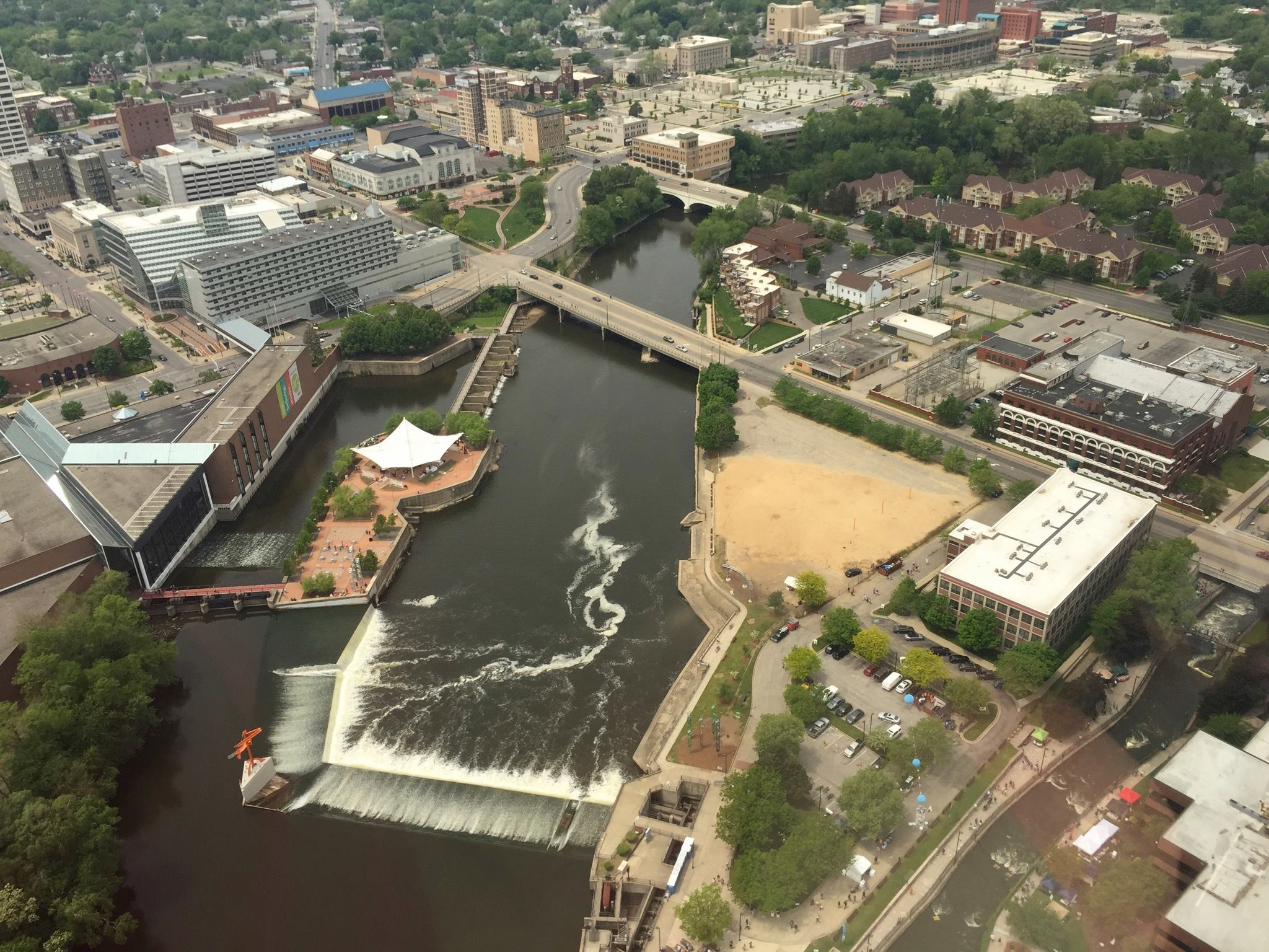 An Aerial photo of Downtown South Bend above the river. You can see the east race, west race, Stephson Mills Apartments, Century Center, Doubletree Hotel, and a lot of the major downtown buildings.